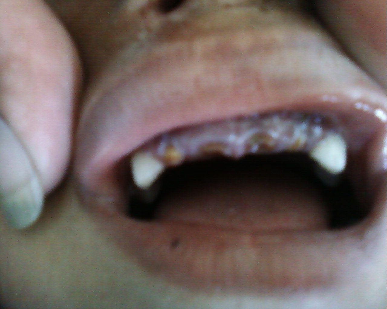 Dentalcaries